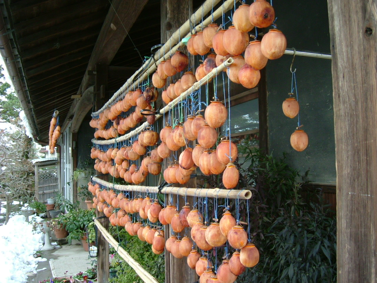 民家の軒先に吊るされた干し柿、岐阜県 Dried persimmon in the making.